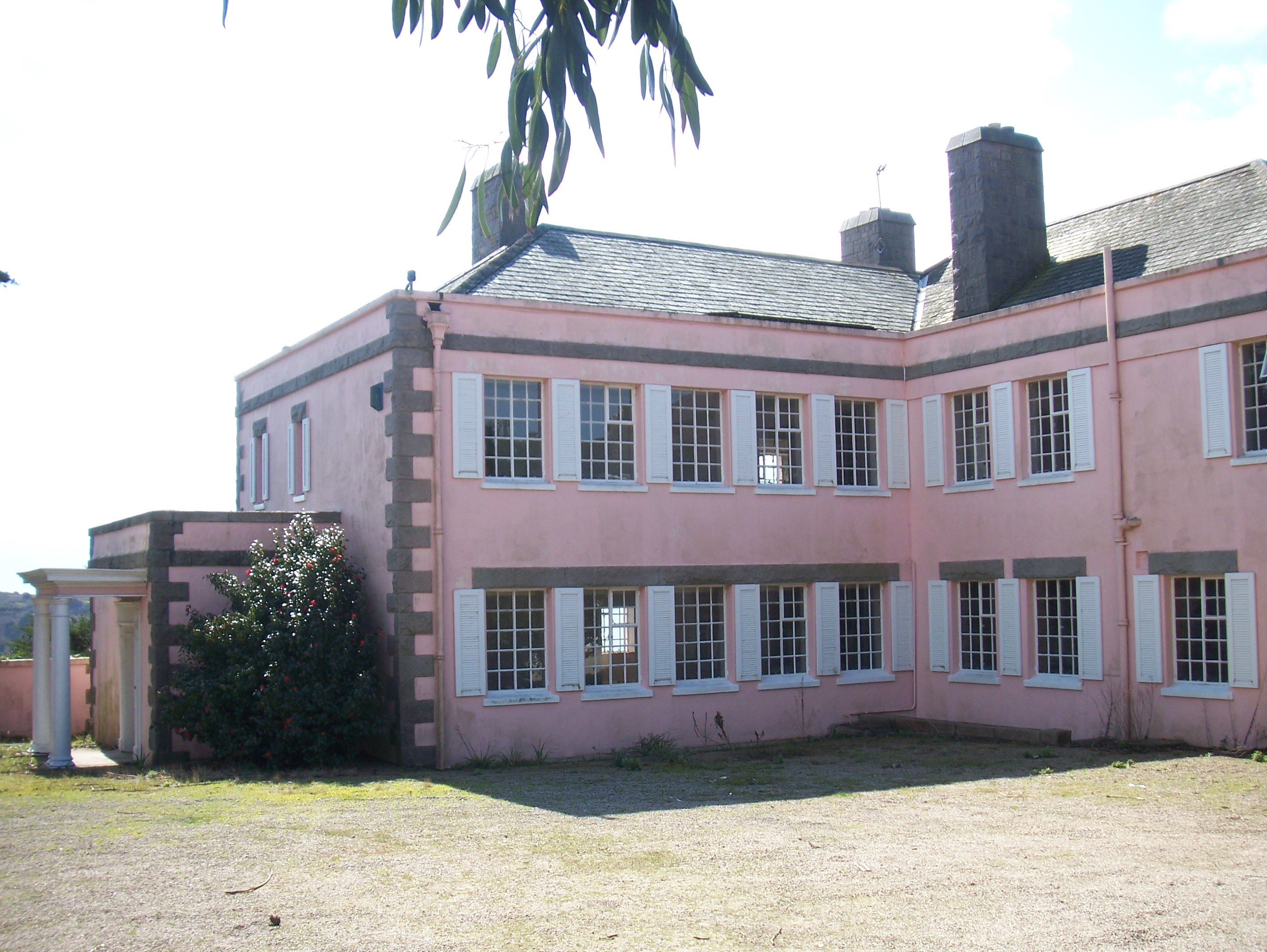 Windward House, St Brelades Bay, Jersey - main front entrance/driveway. Windward House, St Brelades Bay from BBC TV's "Bergerac" is facing demolition in 2009